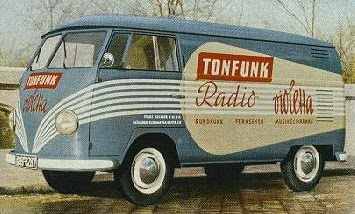 Delivery van of Tonfunk